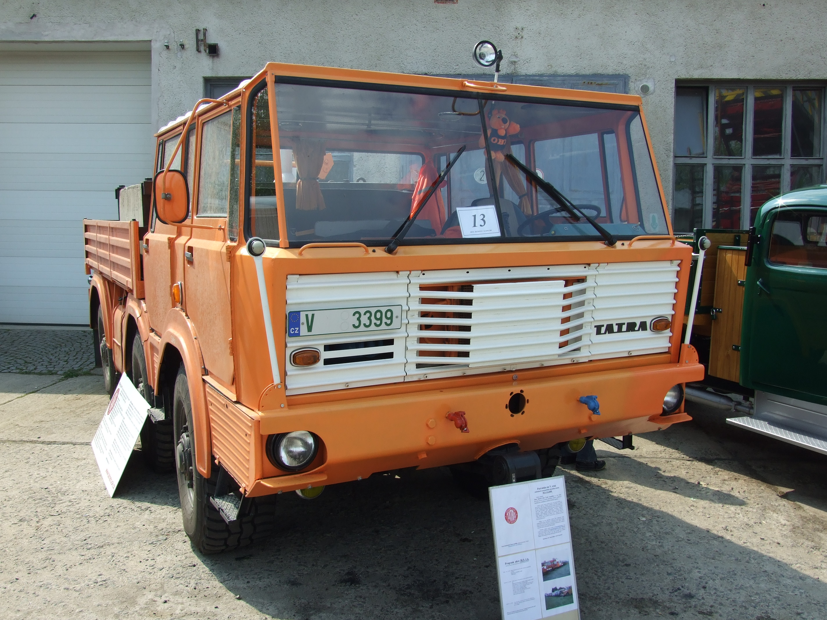 Czechoslovak truck Tatra 813help